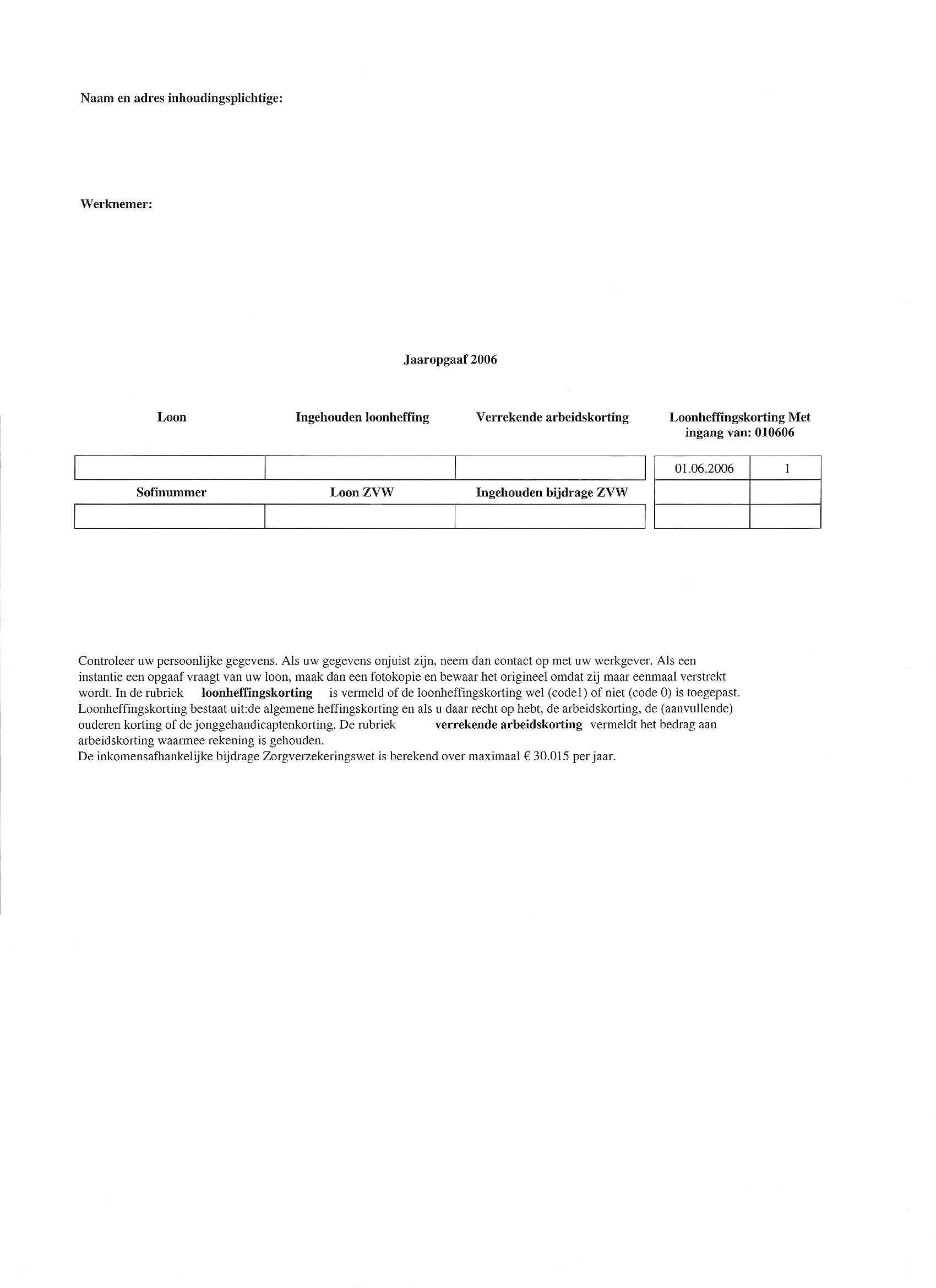 A Dutch Jaaropgave: overview of all the salary and social security information, anonymised